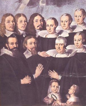 An epitaph featuring Jacob Madsen, his wife, her first husband and their children in Holmens Kirke in Copenhagen, Denmark